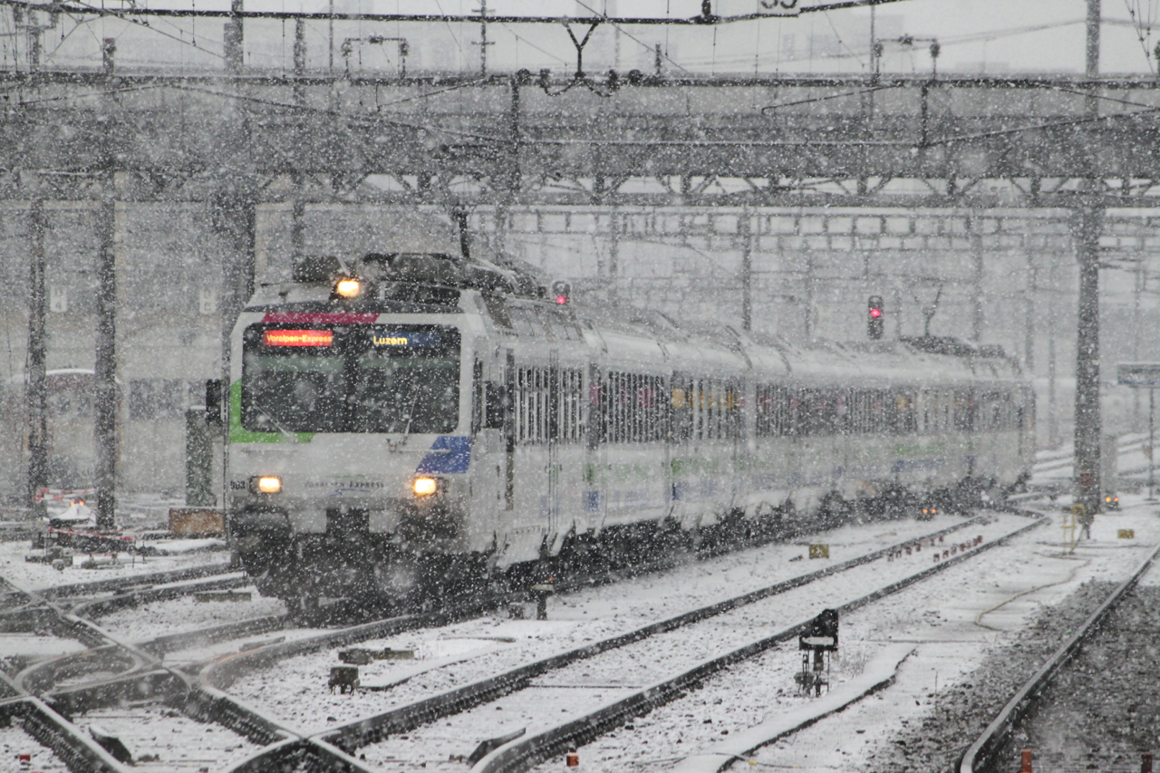 SOB RBDe 561 083 arriving at Rapperswil ahead of VAE 2422 from St. Gallen to Lucerne.